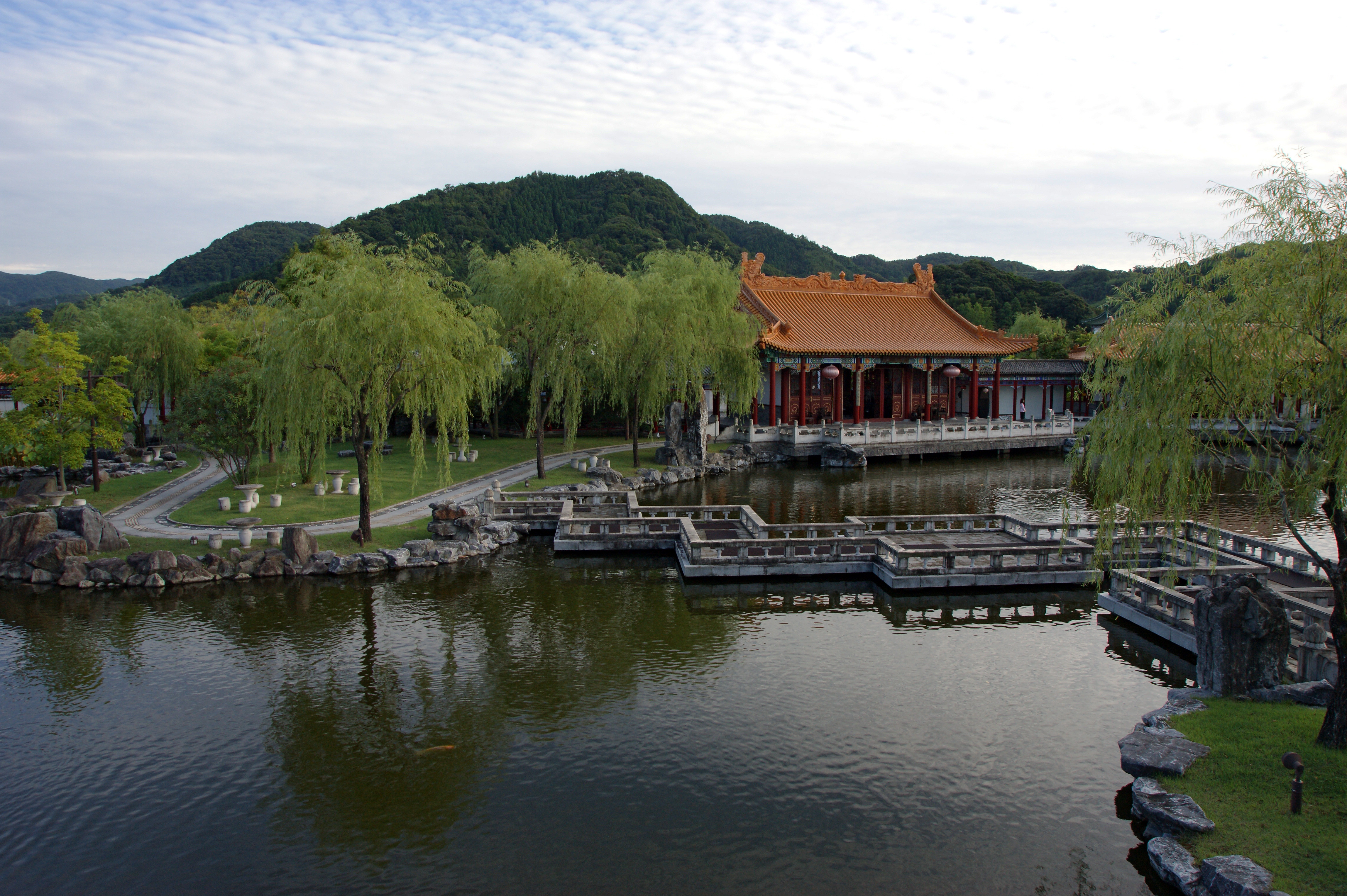 Enchoen in Yurihama, Tottori prefecture, Japan